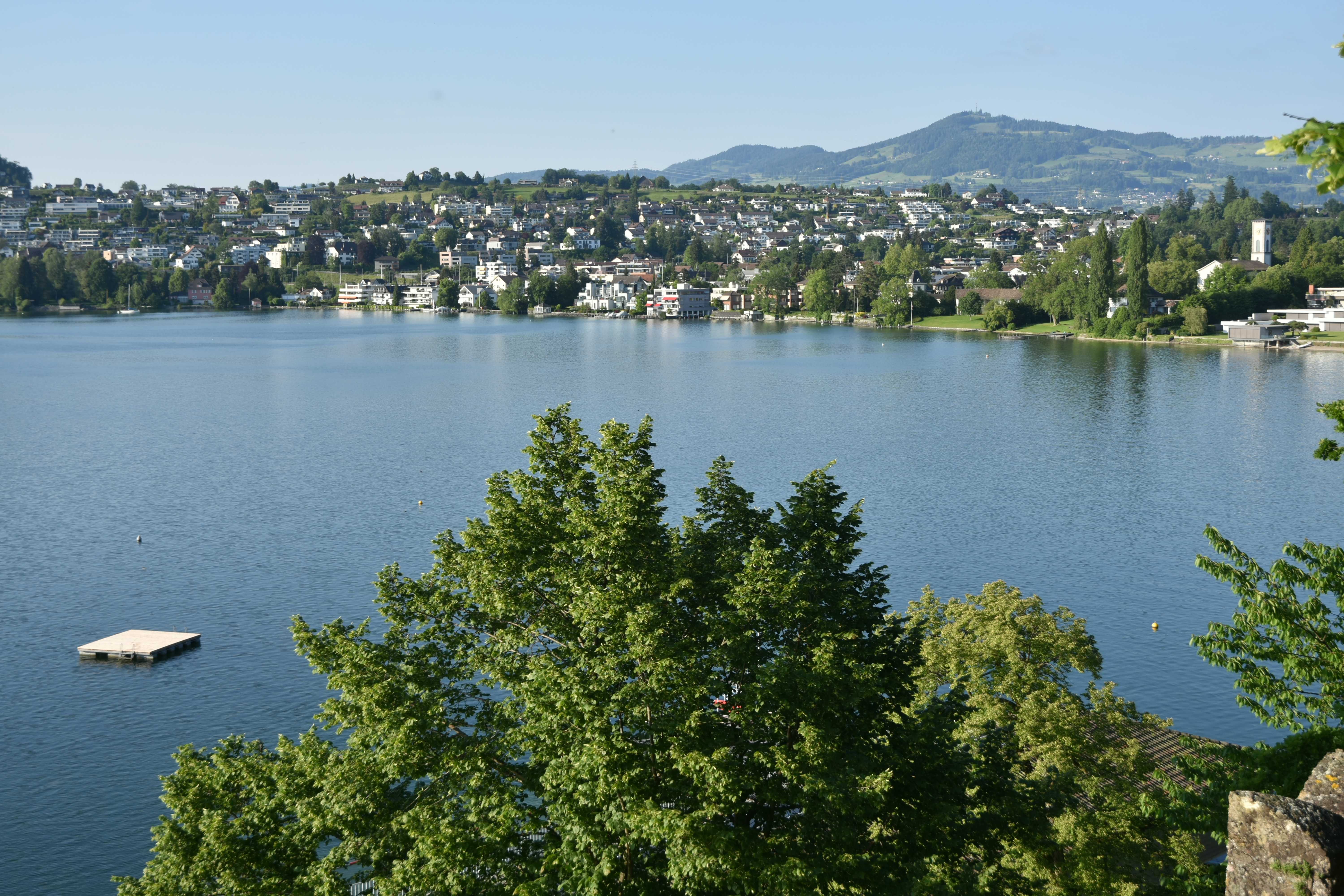 Kempraten on Zürichsee lakeshore in Switzerland, as seen from the Lindenhof hill in Rapperswil, Bachtel in the background.